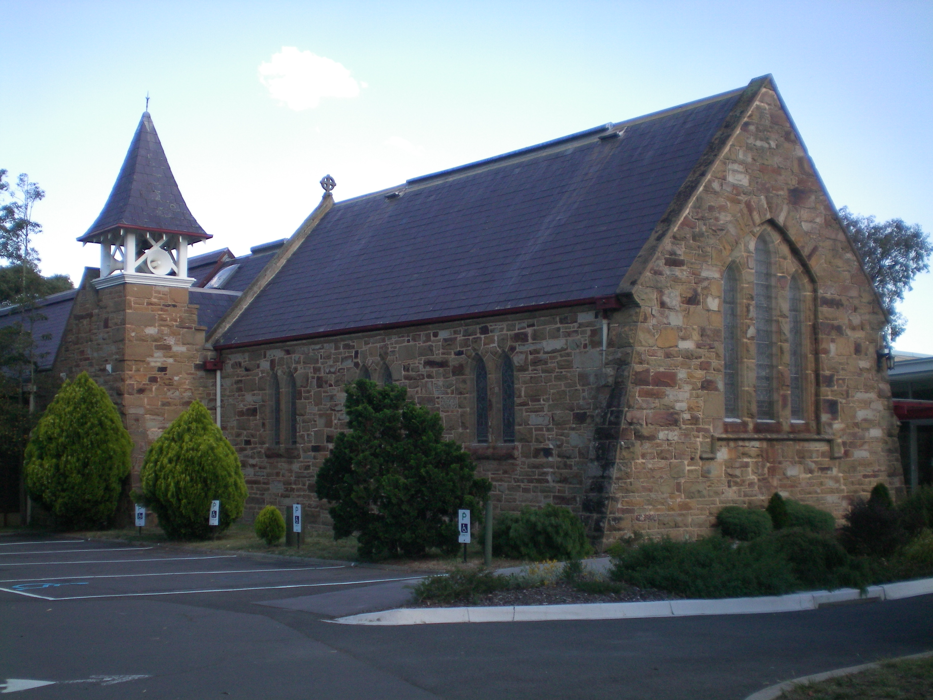 Holy Trinity Anglican Church at Doncaster, Victoria.